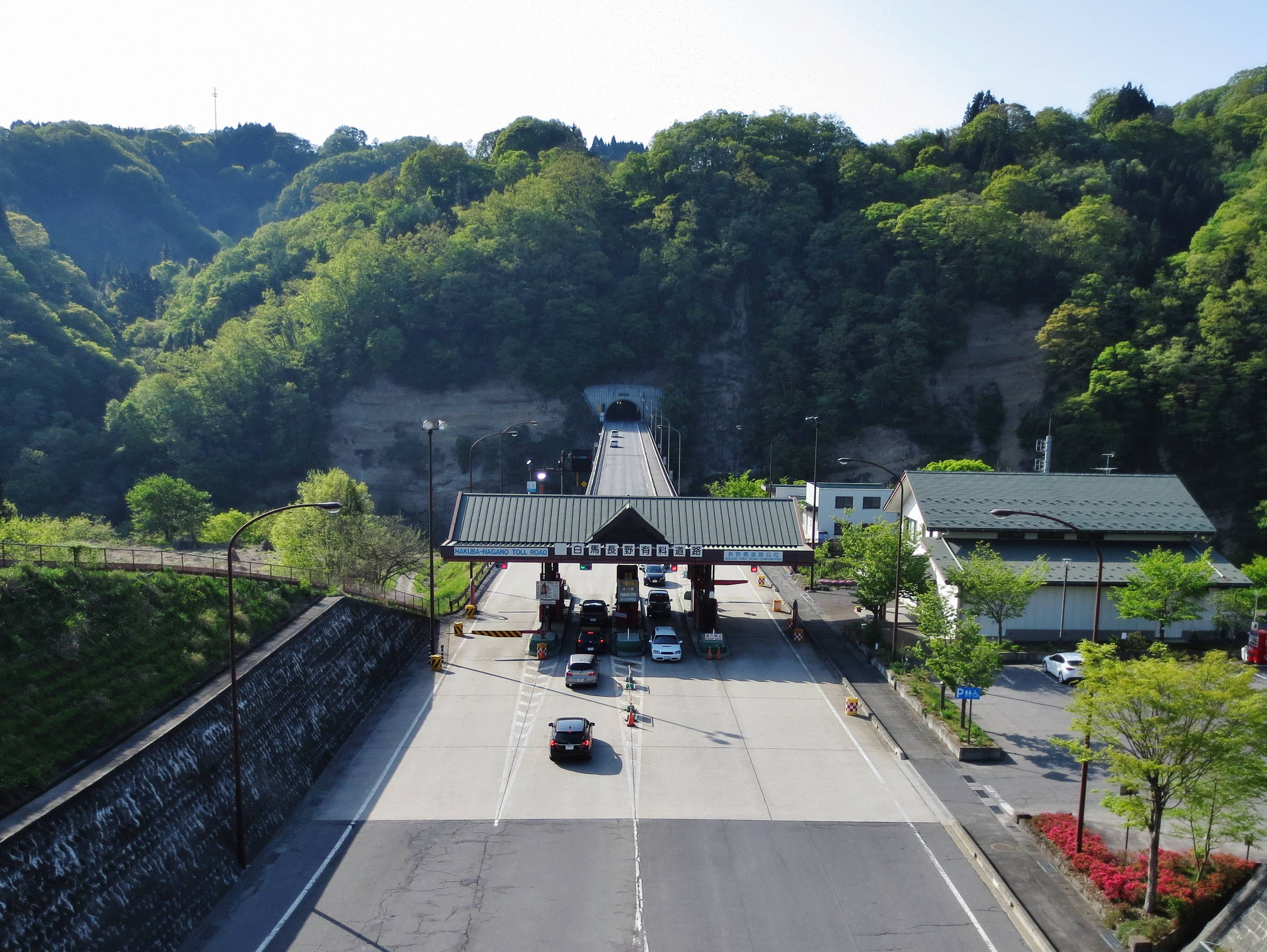 Hakuba-Nagano Toll Road.